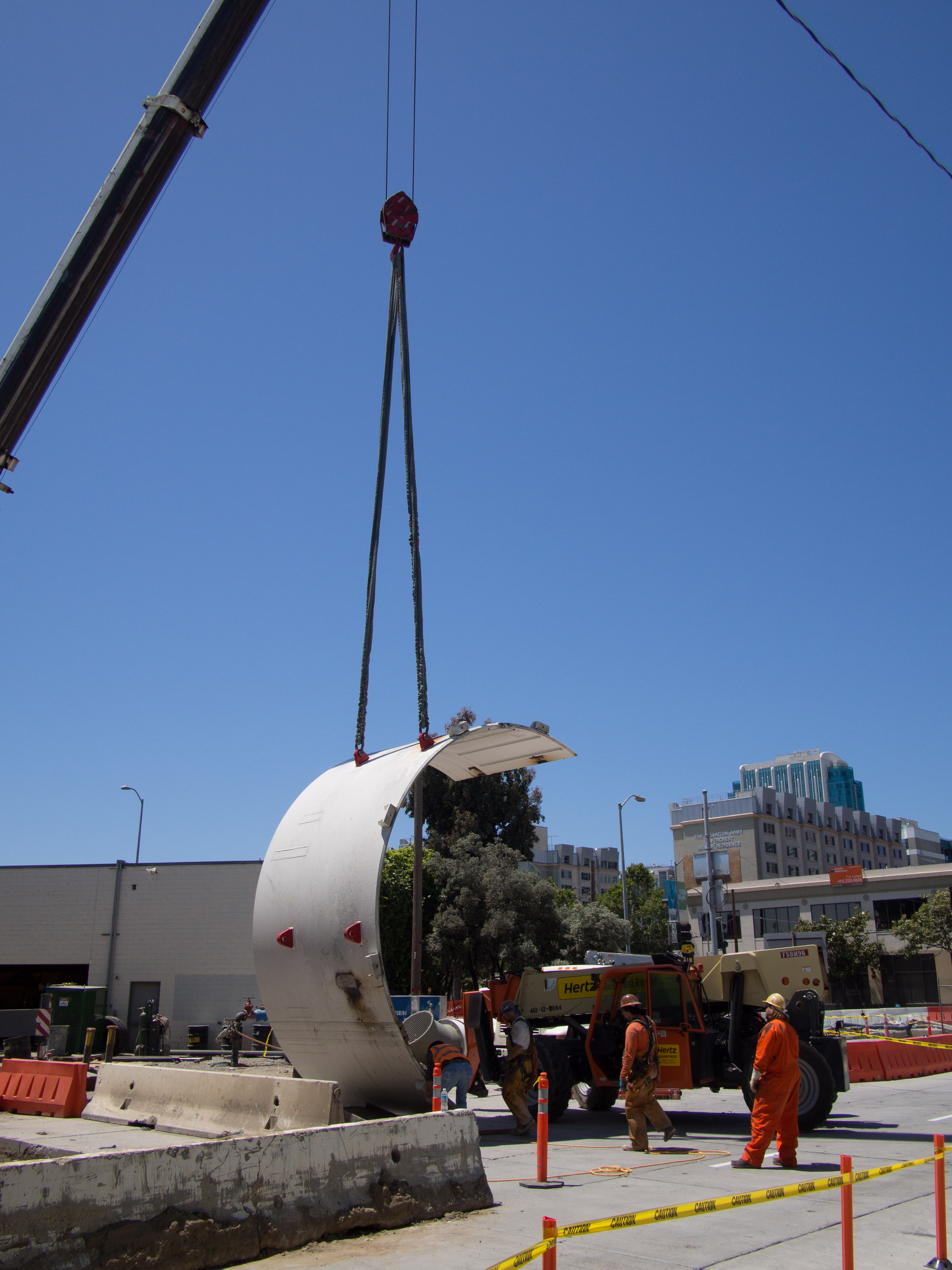 Workers prepare to lower a section of the Central Subway tunnel into the ground just south of Harrison Street on May 18, 2013.